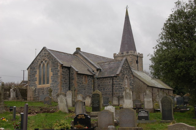 St Patrick's parish church, Cairncastle St Patrick’s parish church at Cairncastle dates from 1815 and, as often the case, is built on the site of an earlier church. It re-opened in December 2006 after extensive renovation. It is just inside this square alongside the road.